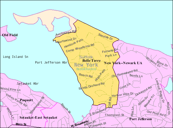 U.S. Census 2000 reference map for Belle Terre